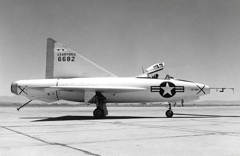 Convair XF-92A with white paint scheme. Taken at Edwards Air Force Base, Calif., in June 1952.